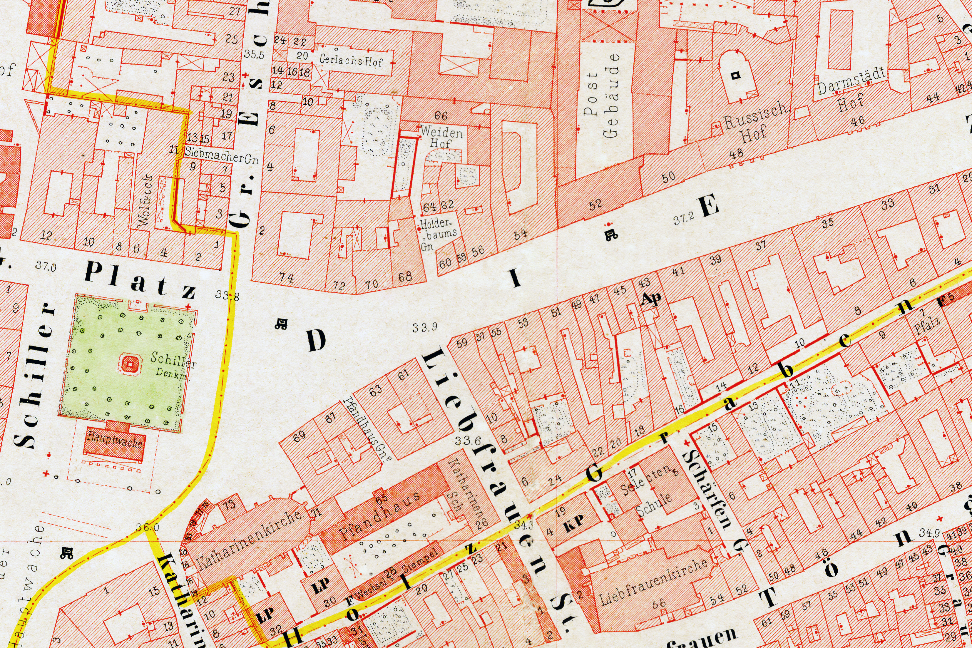 Frankfurt on the Main: Urban surroundings of the Weidenhof at the Zeil in a depiction down to the individual parcels